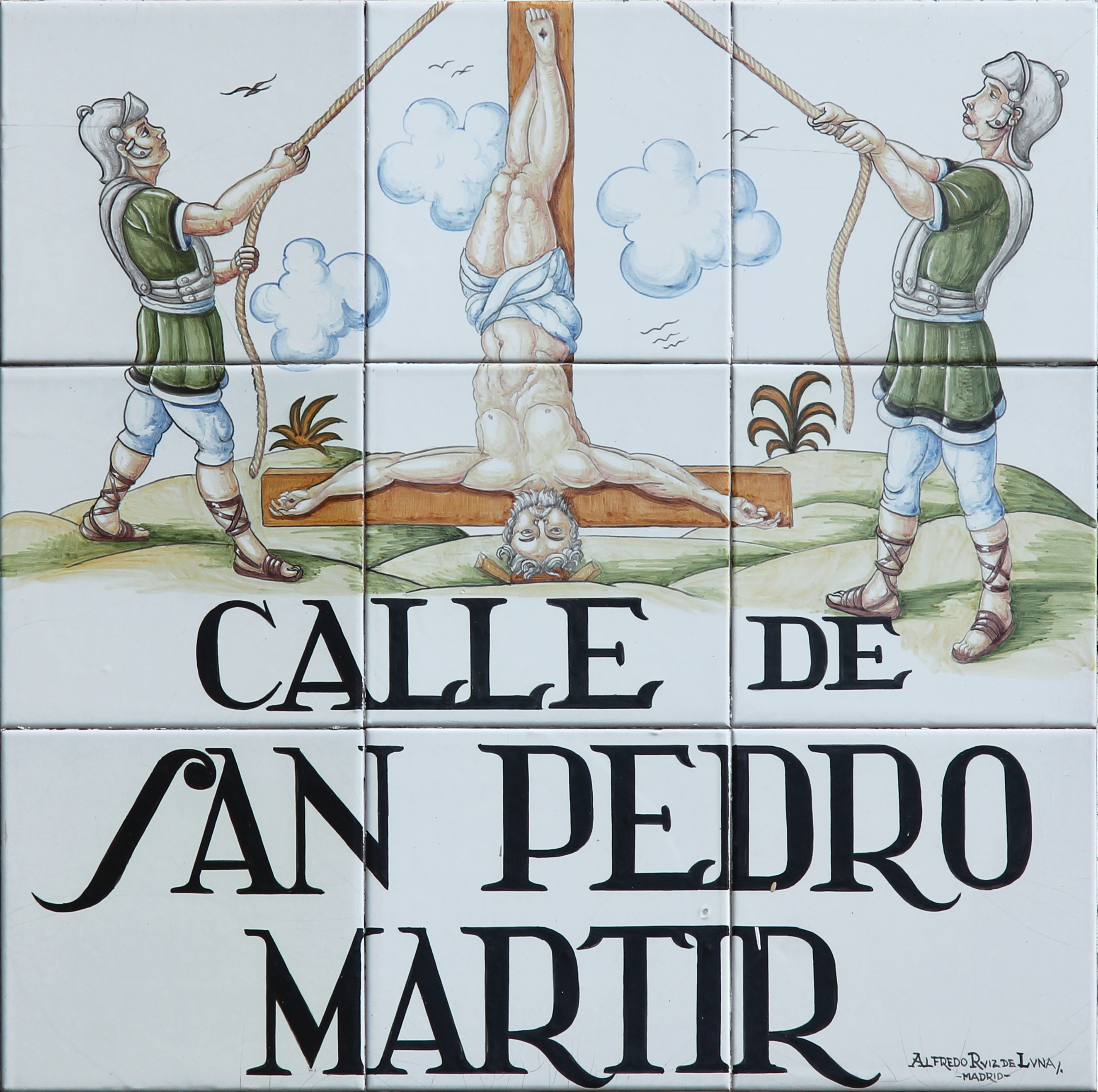 Sign of Calle de San Pedro Mártir (street) in Madrid (Spain).